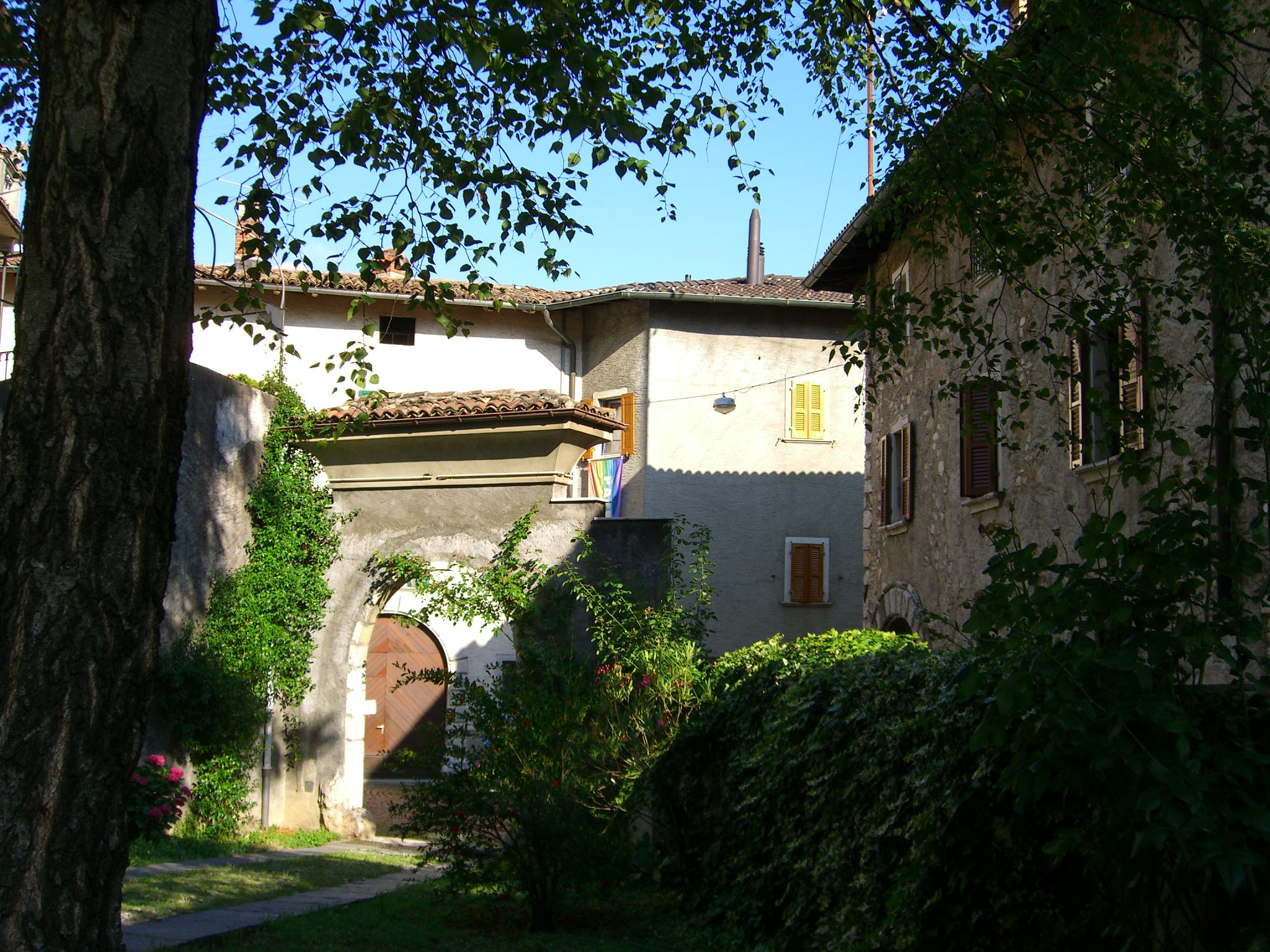 Some impressions from the village Arzo in the municipality of Mendrisio in Ticino, Switzerland